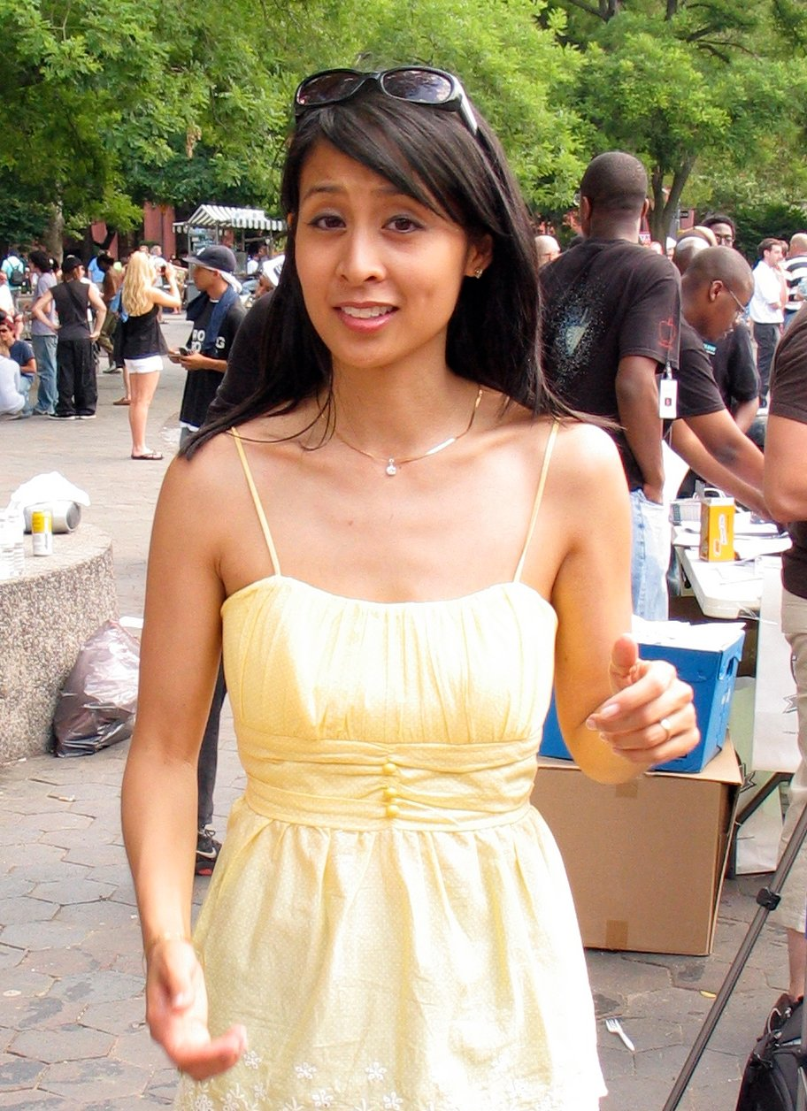 This is Christine. She is a very popular YouTuber who makes funny videos. I was in the village anyway, right near Washington Square Park, NYC, but I would have gone there anyway just to see her. She's great. Cute, too.